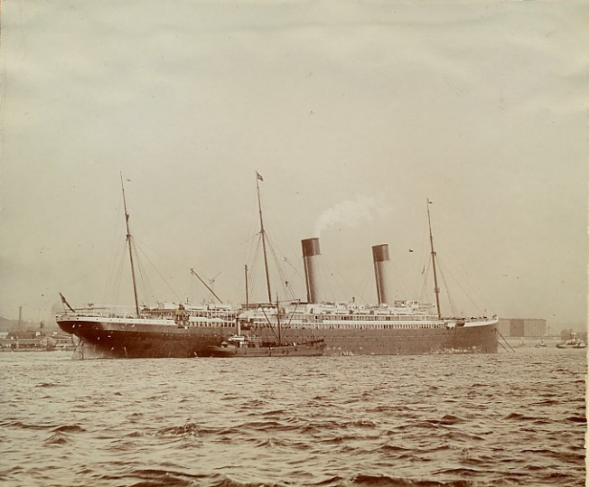 RMS Oceanic at New York.